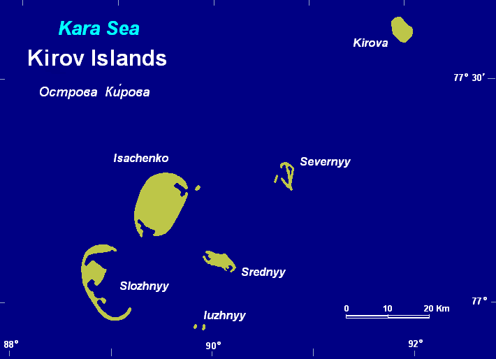 Map of Kirov Islands, Russia